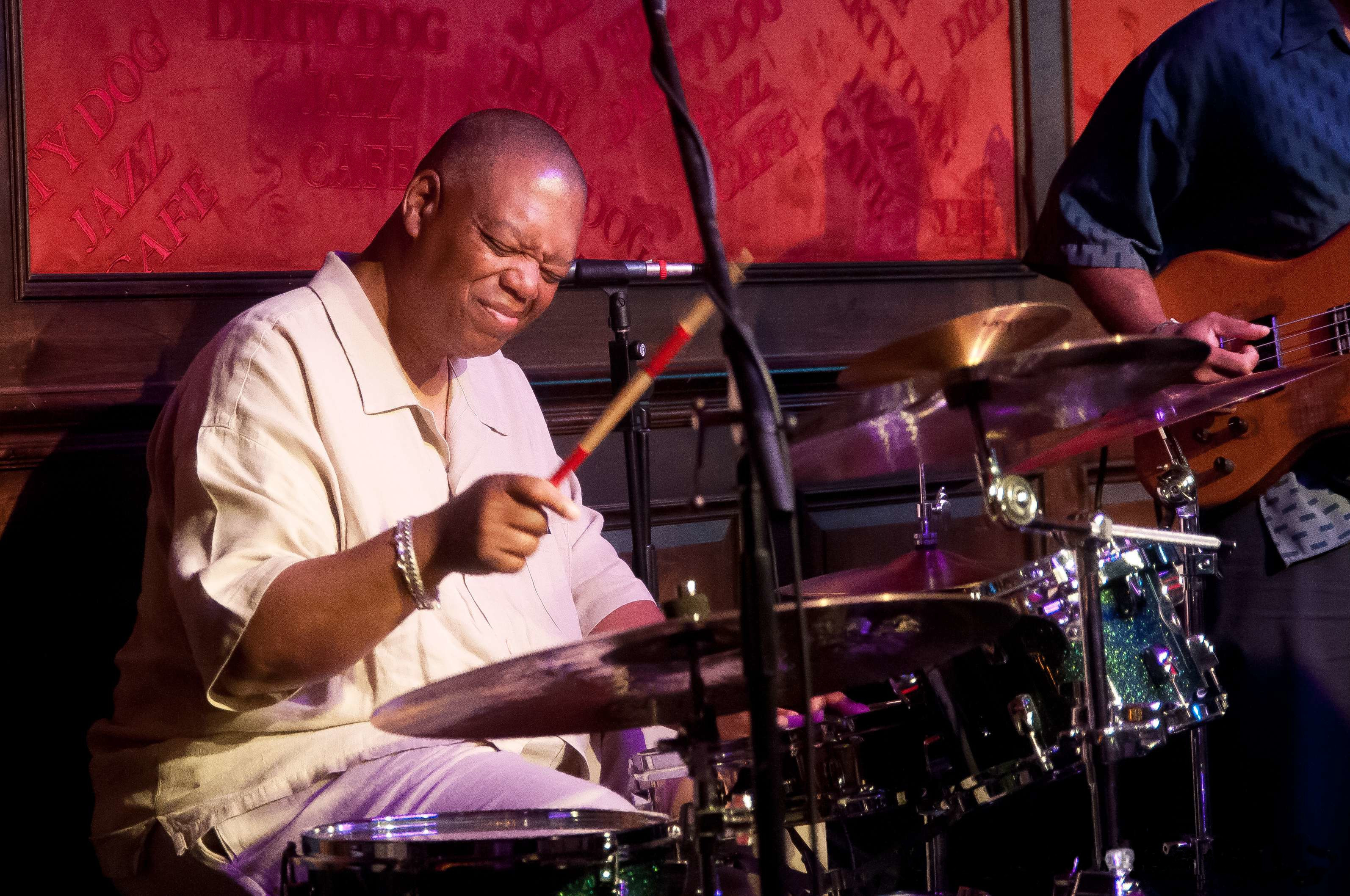 Photo of Drummer Gene Dunlap @ The Dirty Dog Jazz Cafe, June 19, 2013 by Nina Simone Bentley